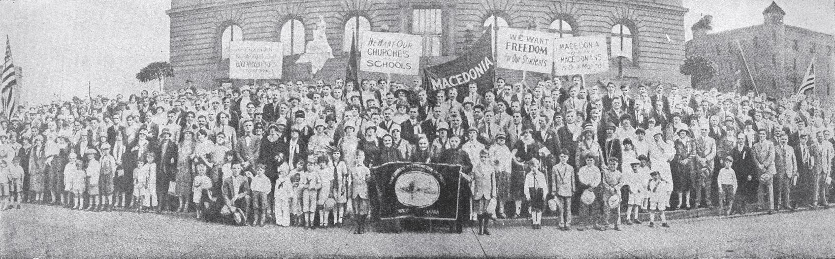 Macedonian patriotic organisation MPO 6th Convention in USA and Canada